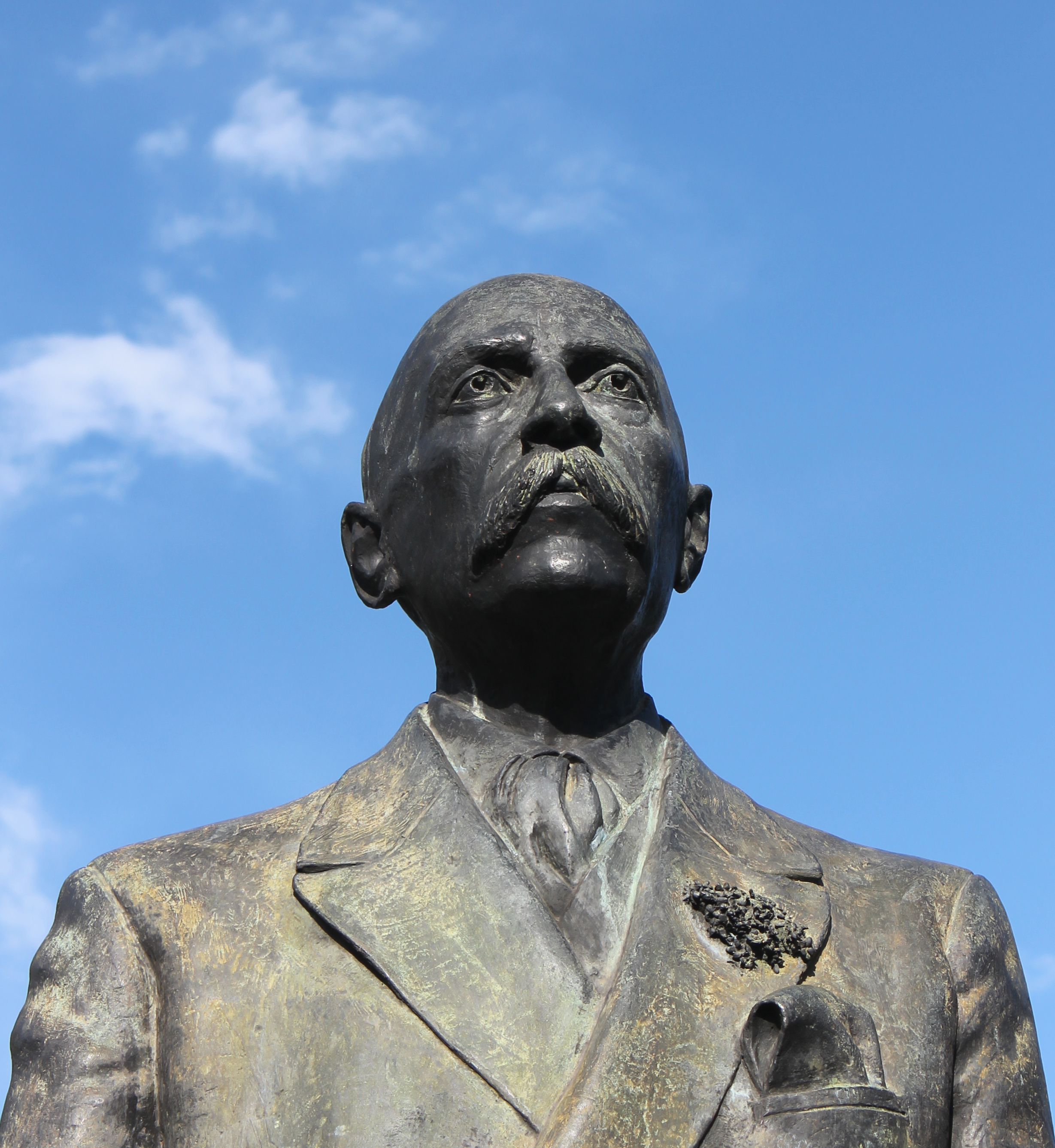 Statue of Arturo Soria